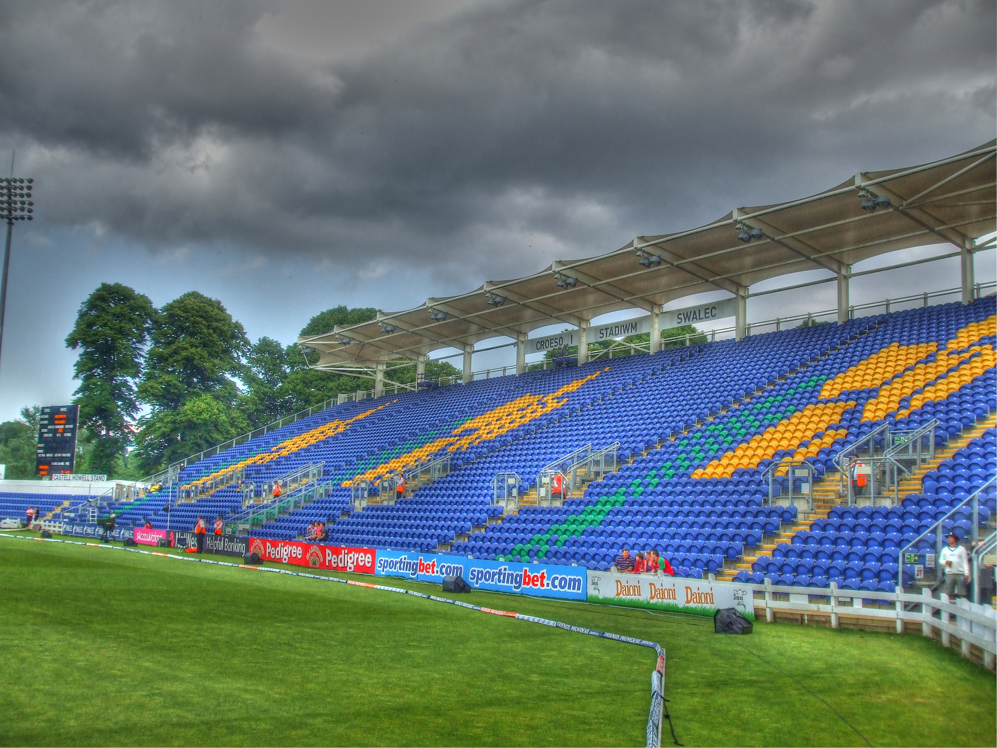 The SWALEC Stadium, Cardiff